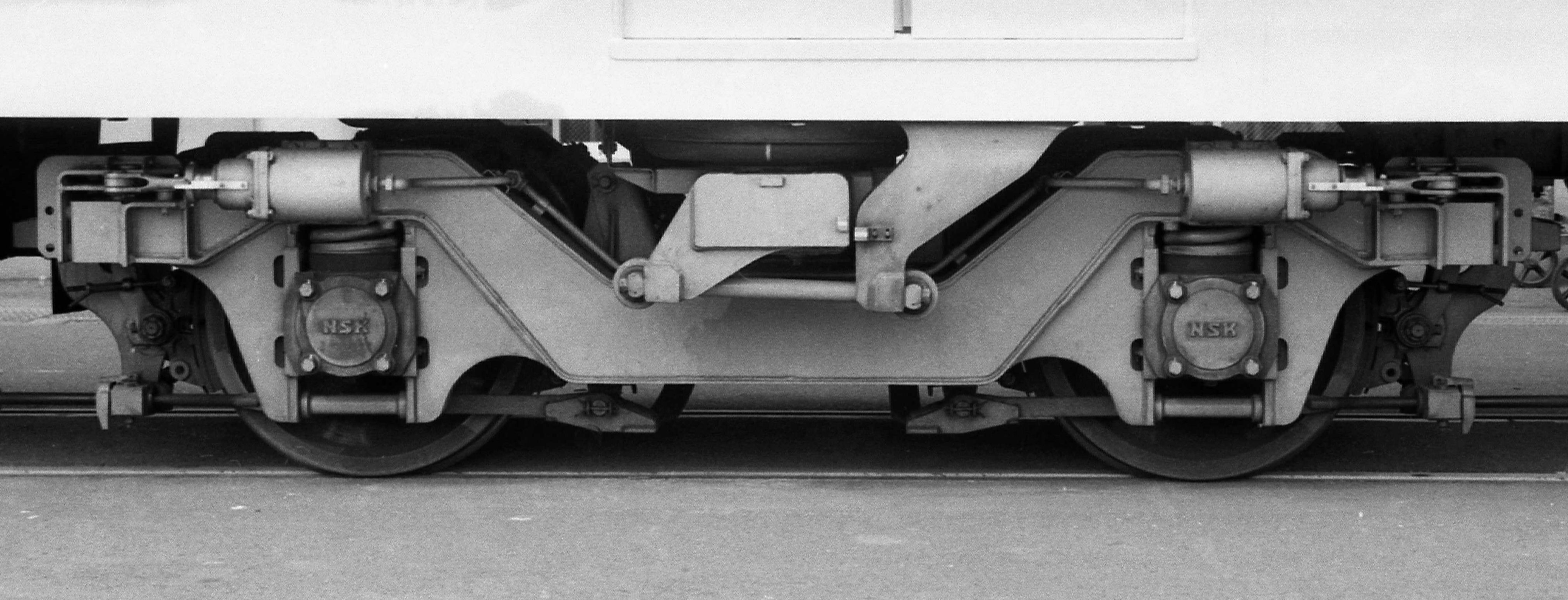 TS-809 bogie truck for Keio 6000